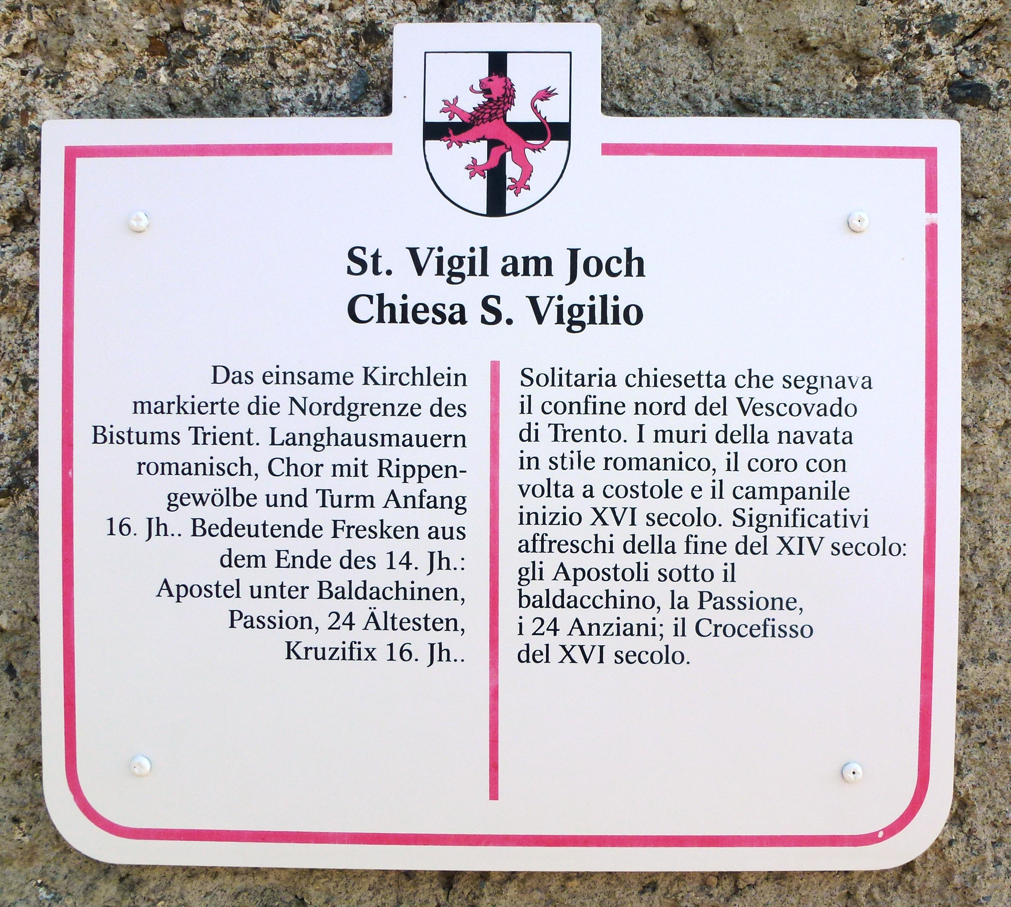 Nameplate at the Chapel St. Vigil am Joch in South Tyrol, Italy